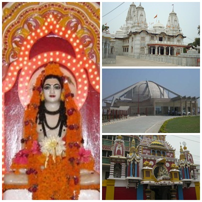 gorakhpur photo